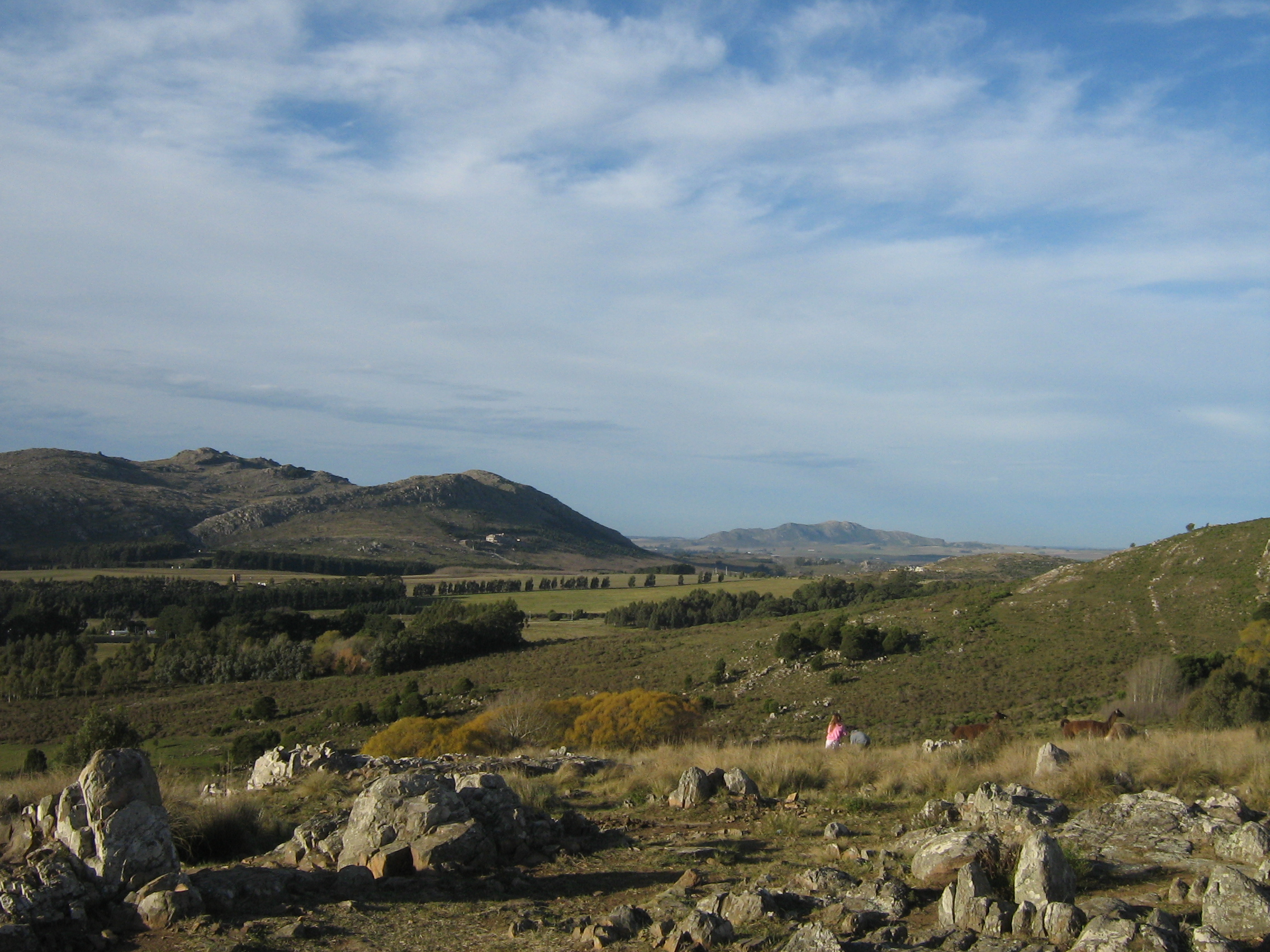 The Sierra del Tigre is a reservation for natural life in the city of Tandil, Argentina.